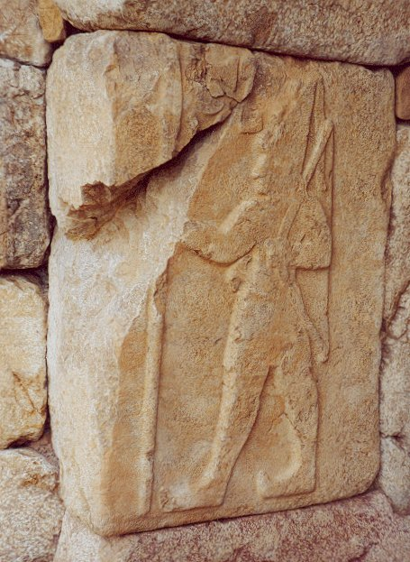 Relief of Suppiluliuma II, king of the Hittites. De king is depicted as god (as he is wearing a pointed hat) and warrior (as he is wearing a short skirt and weapons). The relief is part of the Hieroglyph Chamber in Hattusa, Turkey.